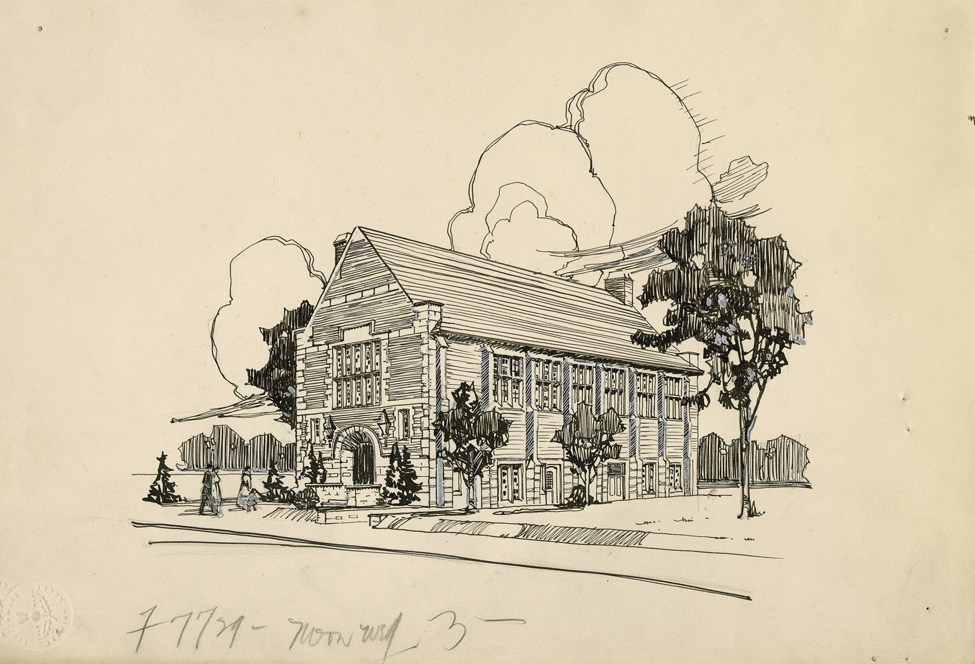 THE TRIPLETS ARE TURNING 100! Three Toronto Public Library branches (Wychwood, High Park and Beaches) are celebrating their 100th birthday, starting this weekend. They all shared the same architect, Eden Smith & Sons. This is an architectural sketch of the Wychwood branch, which was published the journal of the Royal Architectural Institute of Canada (May-June, 1926). Come, help us celebrate this month. Creator: Rous & Mann (Firm) Date: 1926 Identifier: TPL-A-0158 Format: Picture Rights: Public domain Courtesy: Toronto Public Library. More information: (view details and larger image)